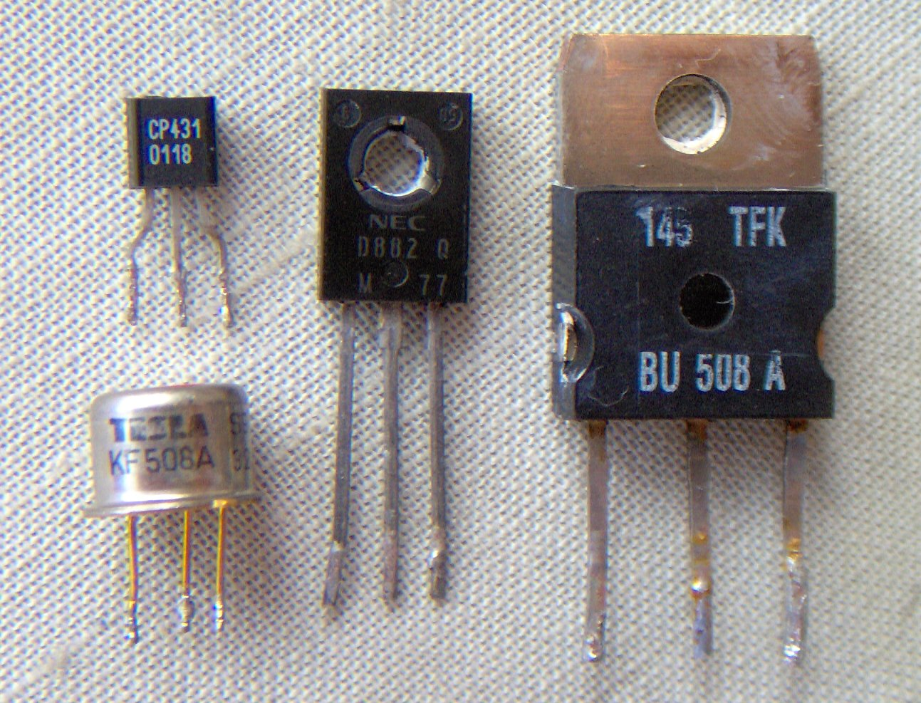 Electronic component - various bipolar transistors. Package types from top left: TO-92, TO-225, TO-220, bottom left TO-18 (steel case).